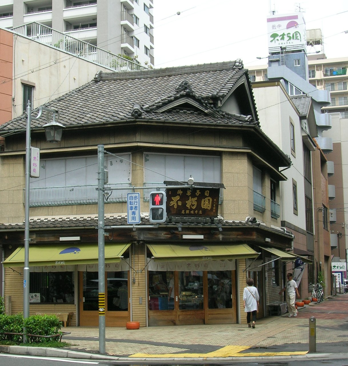 Fukyû-en Honten. Loc: Nakagawa-ku, Nagoya city, Aichi Prefecture, Japan. 不朽園本店。 撮影場所 愛知県名古屋市中川区